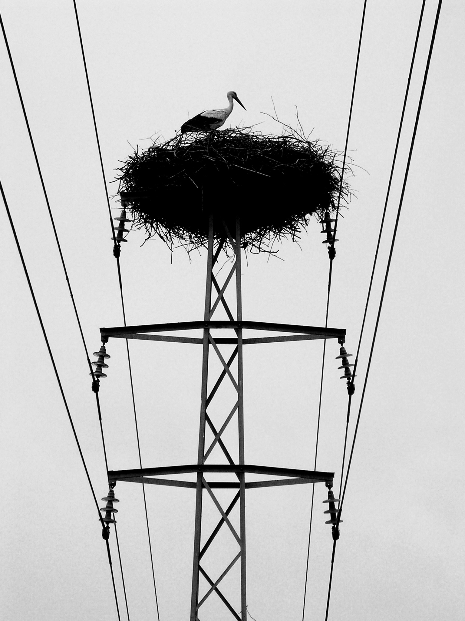 A stork in its nest atop a power mast near Cadiz, southern Spain.